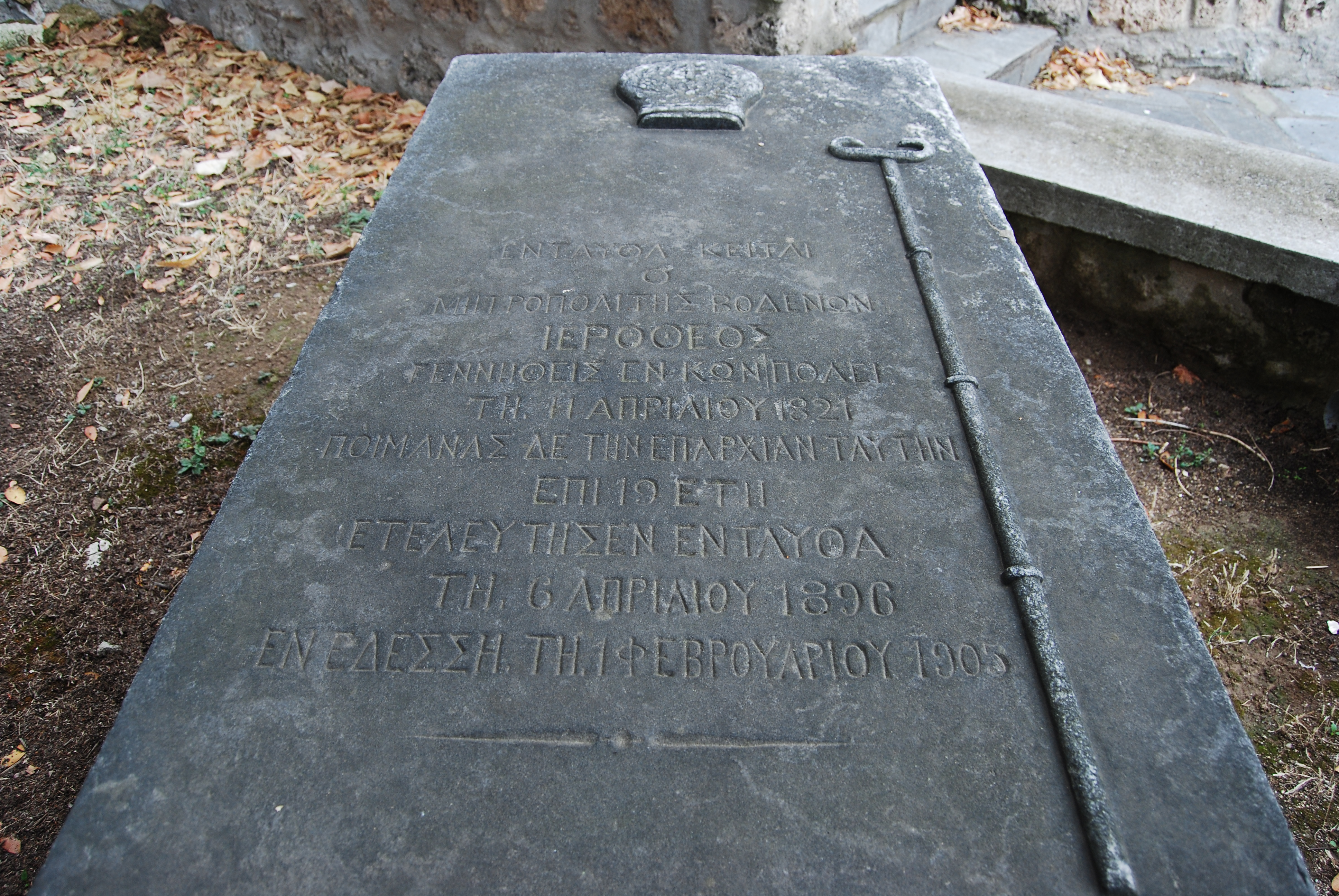 Old Metropolitan Church in Voden Stone of Ieroteus of Vodena